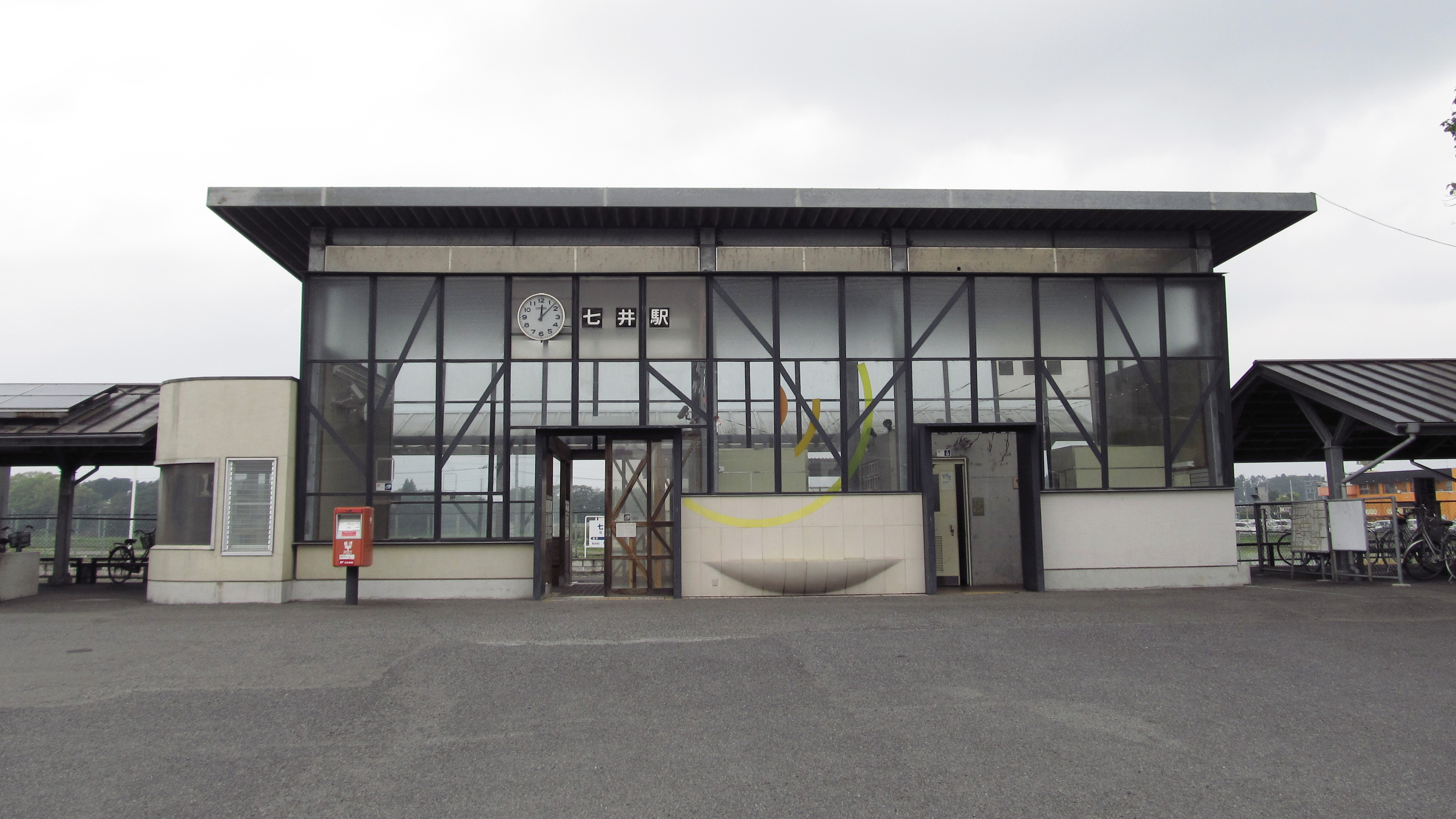 The building of Nanai Station on the Mooka Railway Mooka Line in the Mashiko town, Tochigi prefecture, Japan